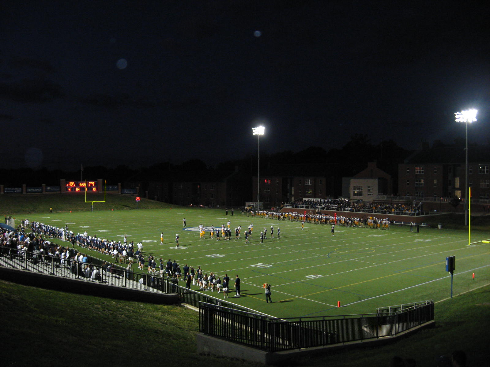 The Butler Bowl on its firs night game in over 70 years